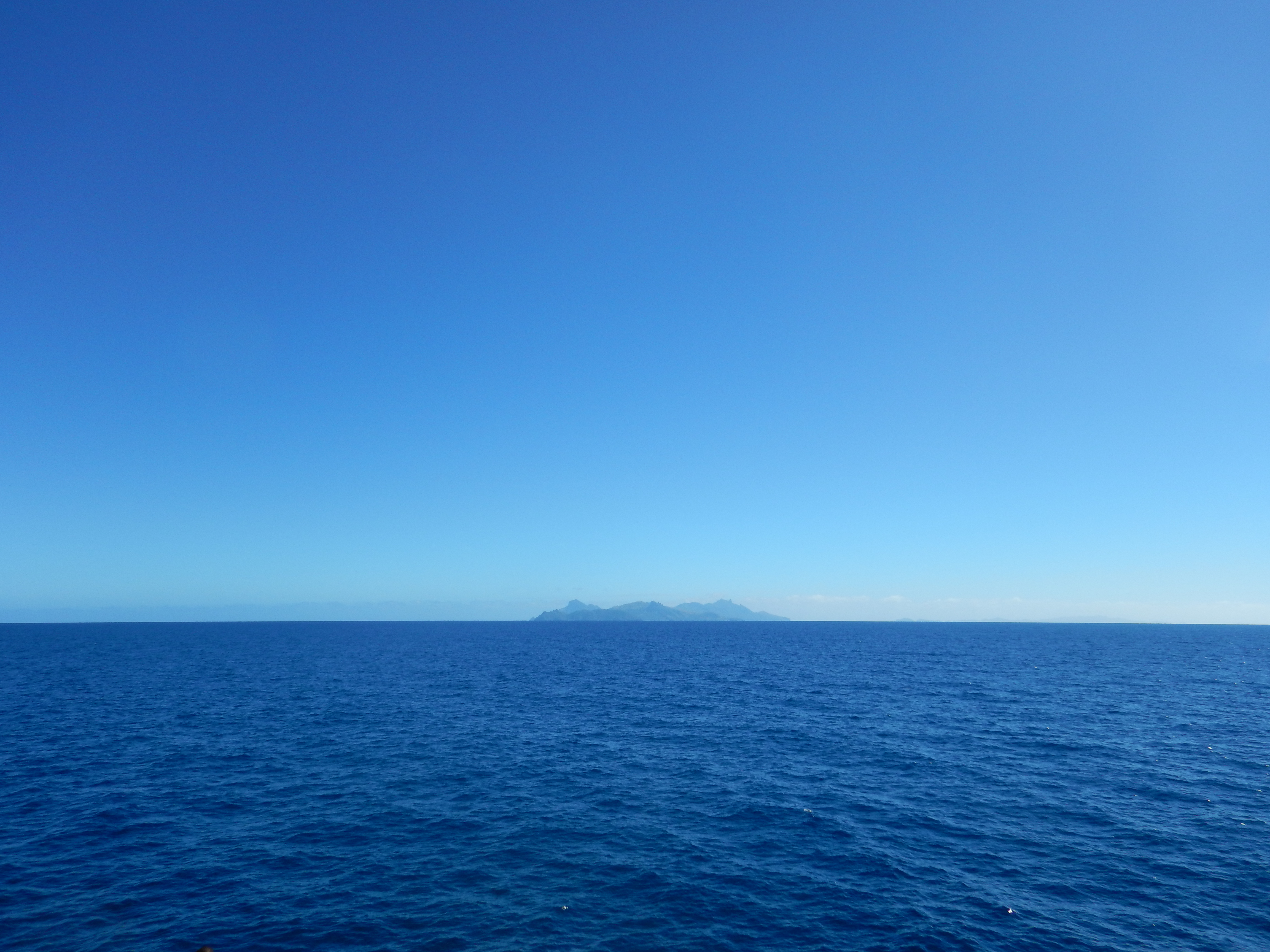 The Yasawa Islands of Fiji as seen from a boat in August 2016.